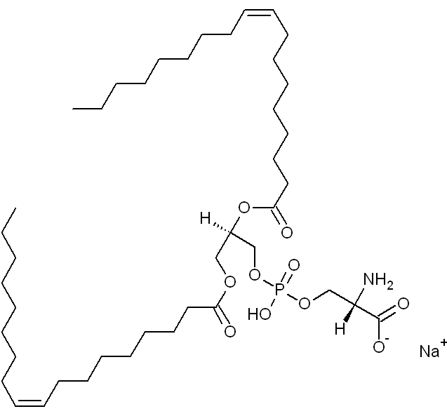 Structural formula of 1,2-dioleoyl-sn-glycerol-sn-phosphatidyl-L-serine monosodium (OOPS)